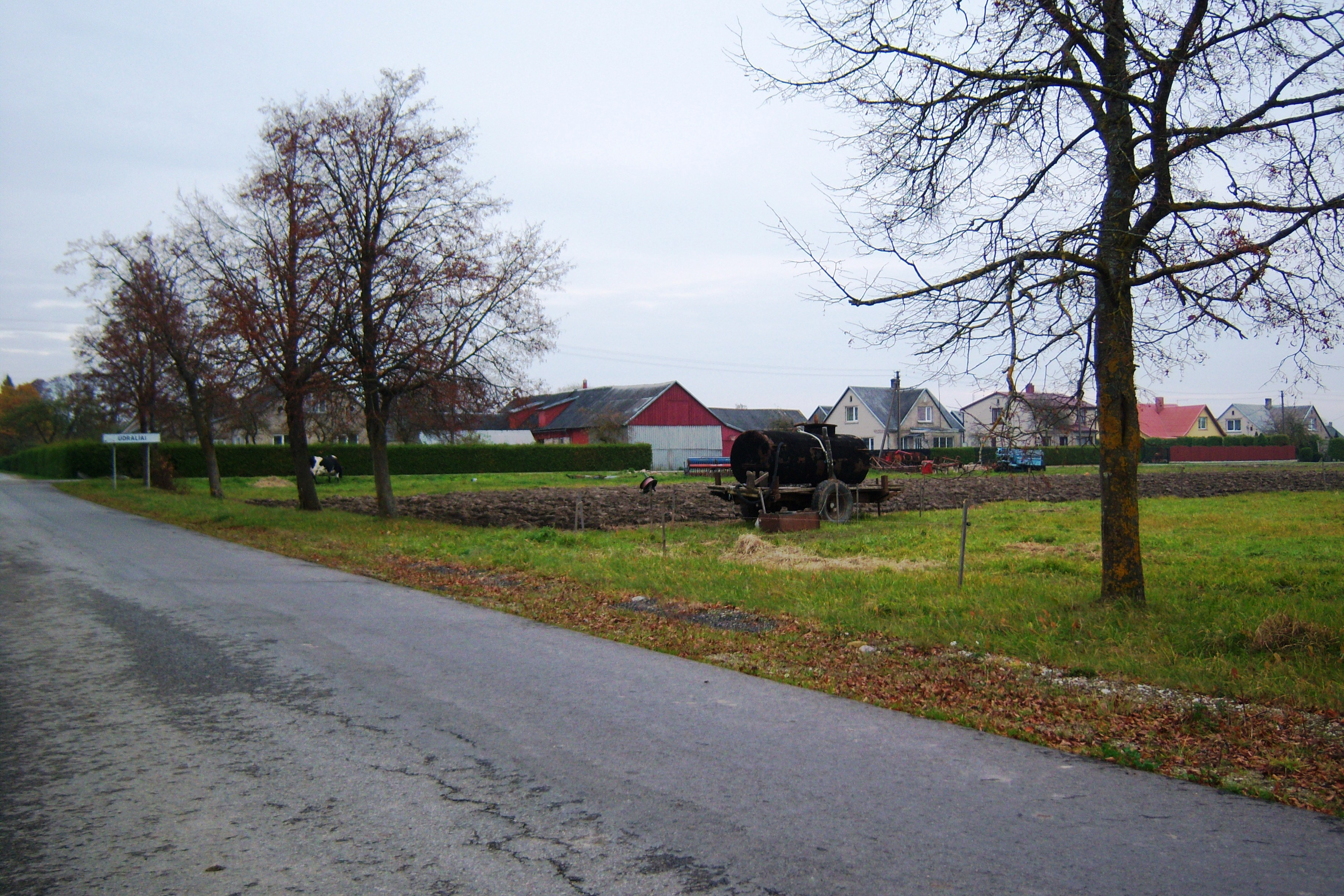 Udraliai, Skuodas district, Lithuania